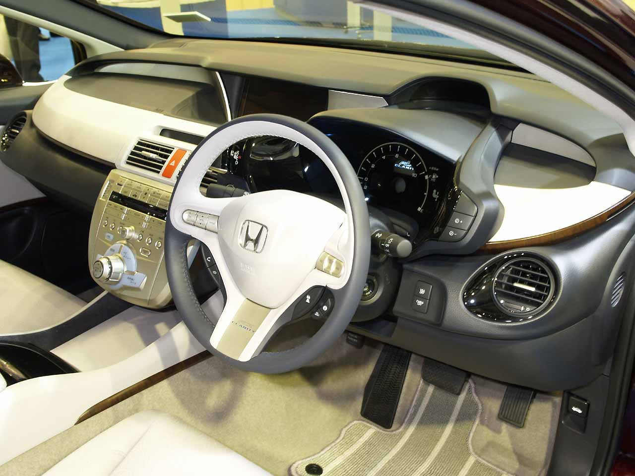 Cockpit of Honda FCX Clarity (right handle version). Shown in FC EXPO 2009.